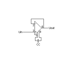 OP voltage follower